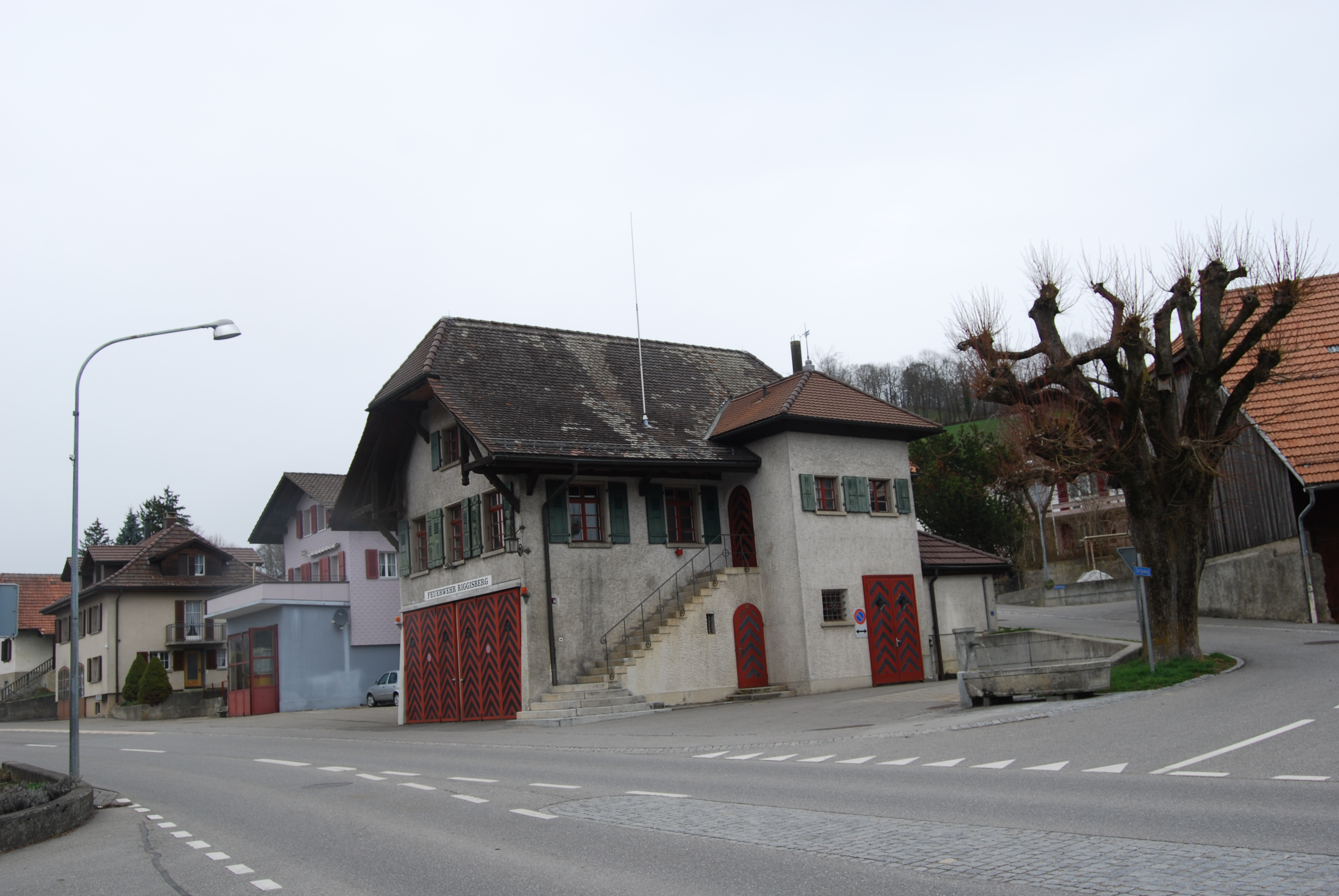 Riggisberg, canton of Bern, SwitzerlandEsperanto: Riggisberg, Kantono Berno, Svislando